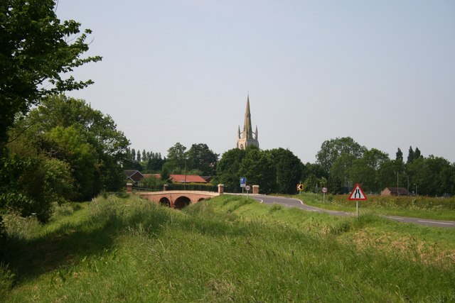 Red Bridge. Red Bridge over Helpringham Eau and St.Andrew's church beyond.